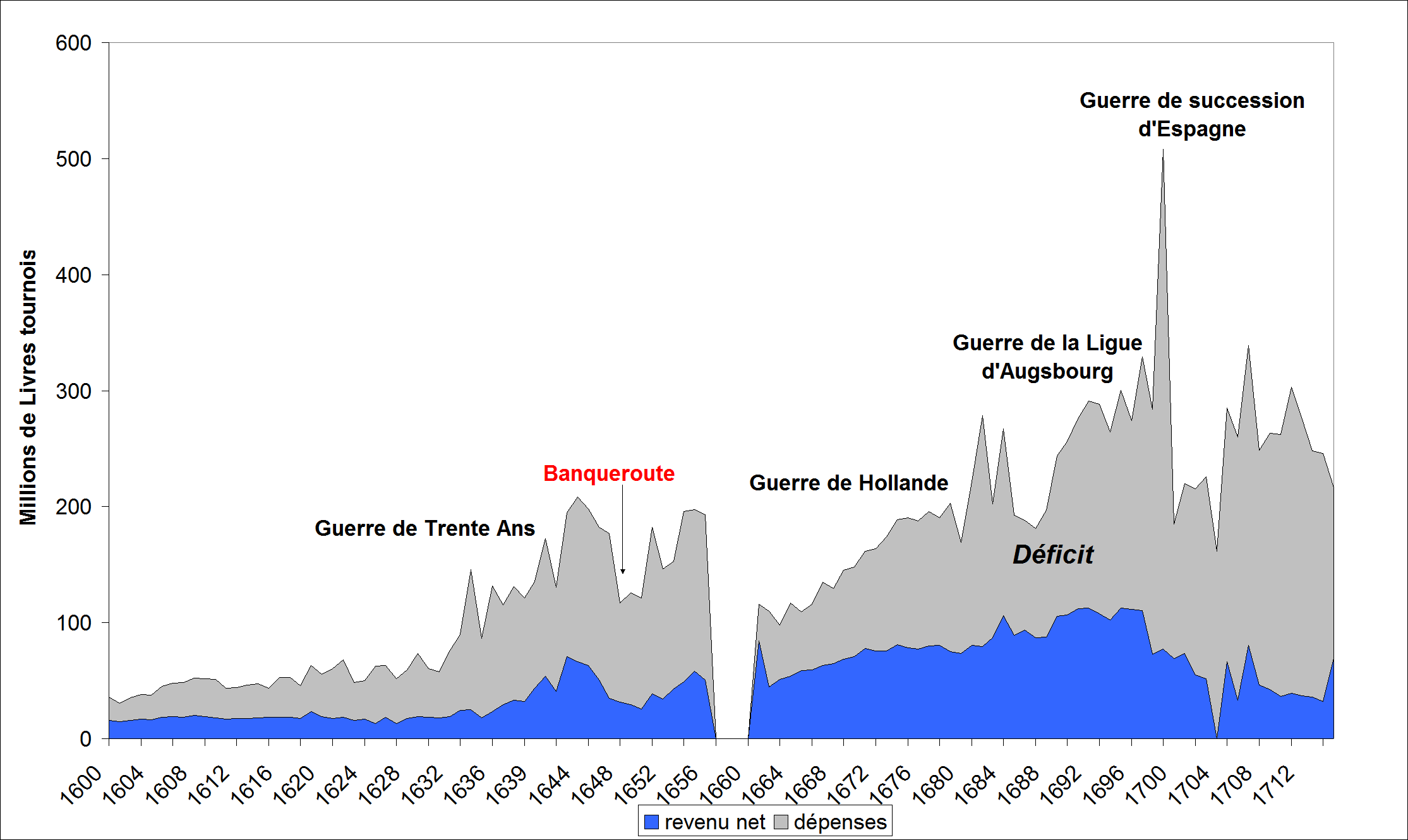 French State expenses and revenues in the 17th century, until the end of the reign of Louis XIV. Data from Alain Guéry in n°2 Annales ESC 1978.